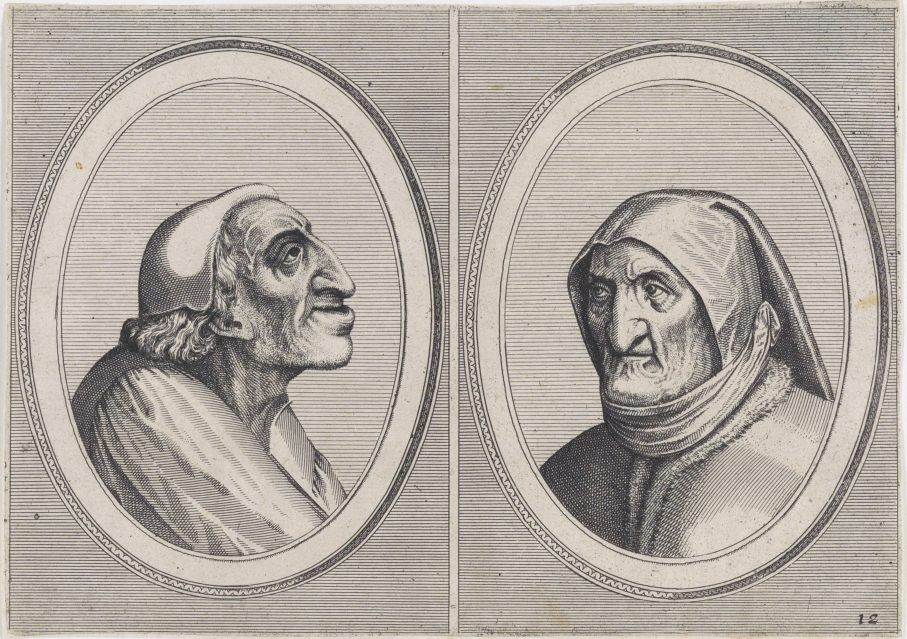 Pater Muylaert and Mater Bille-bloots. Engraving based on Pieter Brueghel the Elder engraving 13.4 x 19 cm ca. 1564–1565